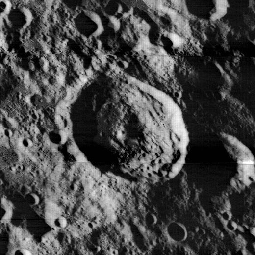 Oblique view of Krasovskiy, on the far side of the moon, facing north.